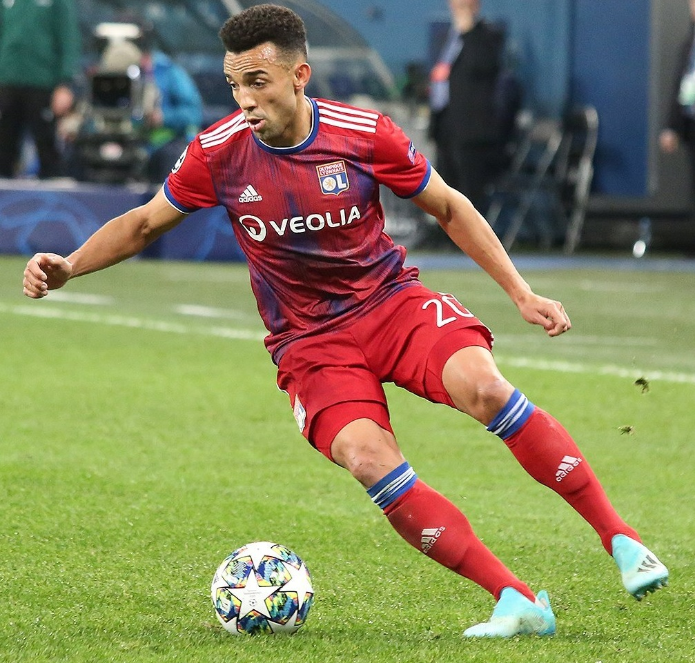 Marçal with Lyon in a Champions League game against FC Zenit Saint Petersburg.